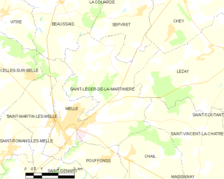 Map of French municipality Saint-Léger-de-la-Martinière